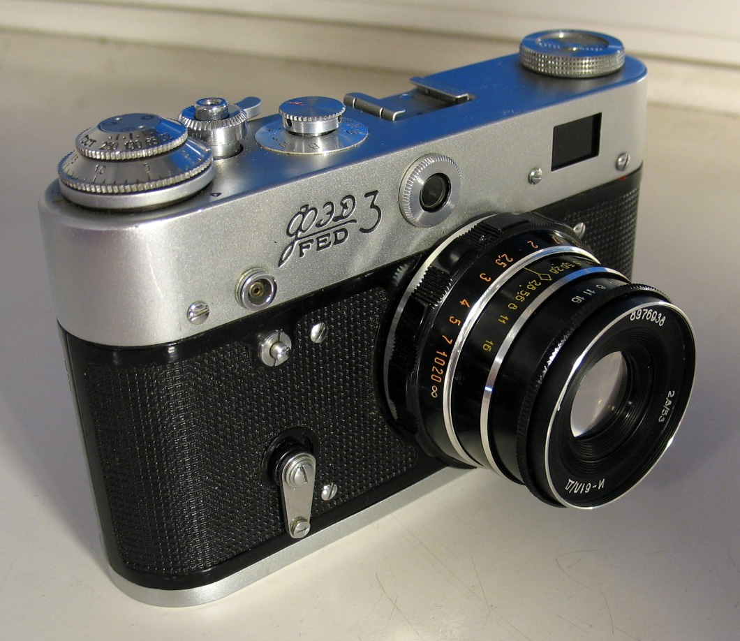 ФЭД-3 (FED-3) camera with "Industar-61" lens